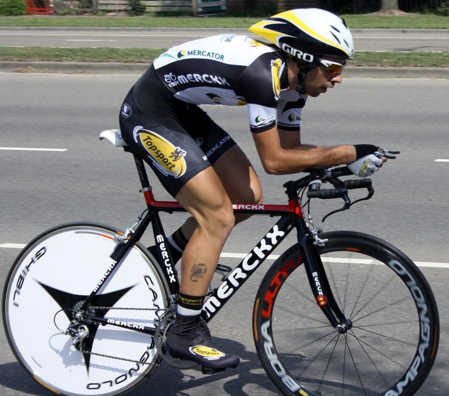 Thomas De Gendt at the 2009 Eneco Tour prologue